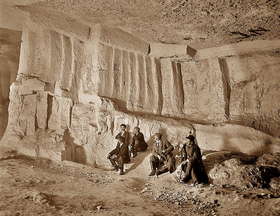 Zedekiah's Cave, Jerusalem, early 20th century